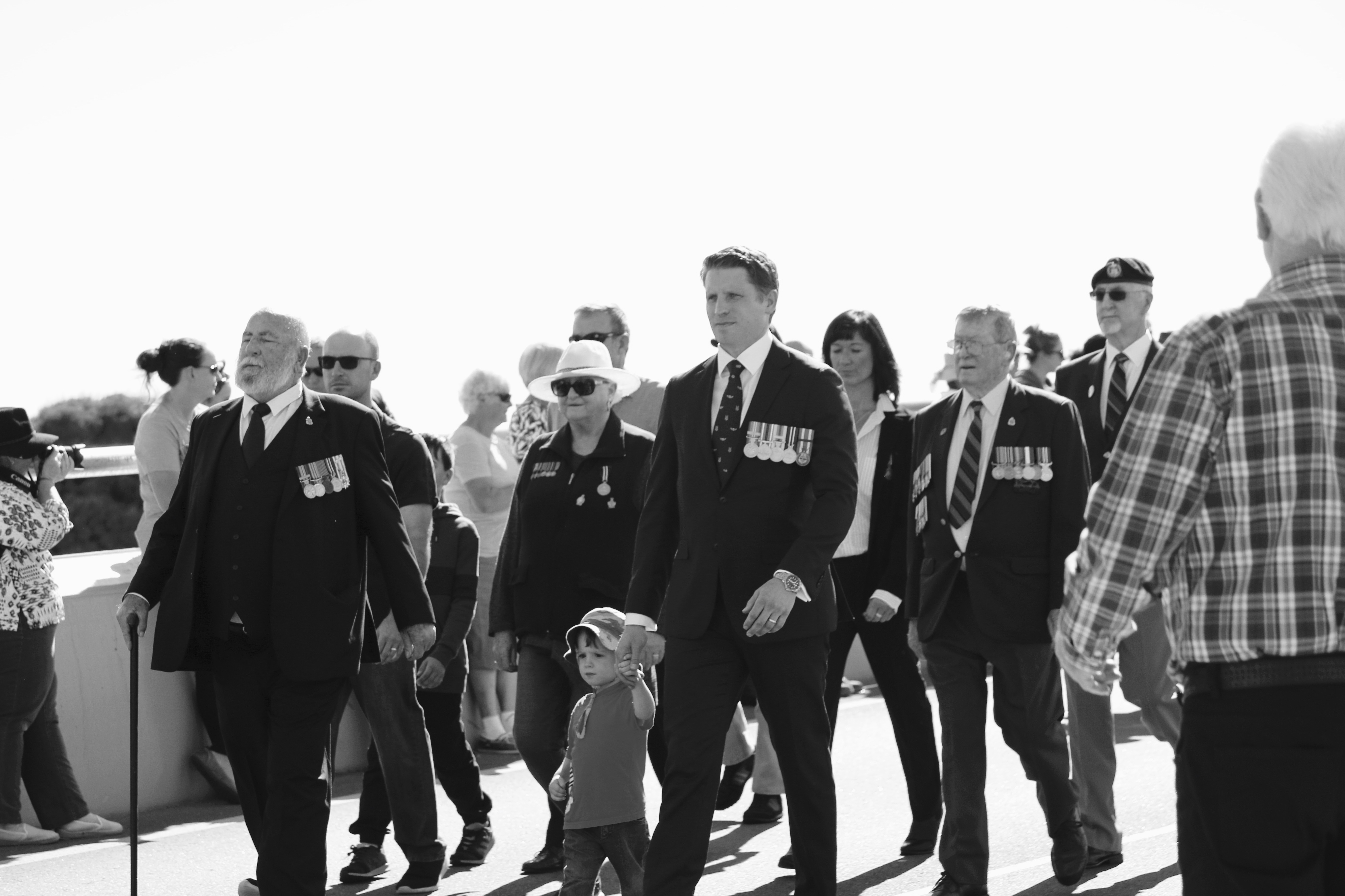 Andrew Hastie MP with son Jonathan at the 2018 ANZAC Day March in Mandurah WA taken by D Birch